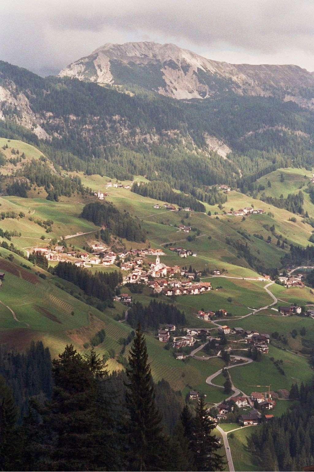 Wengen La Val La Valle September 2005 - Pares-Spitze (2397 m.) in the background